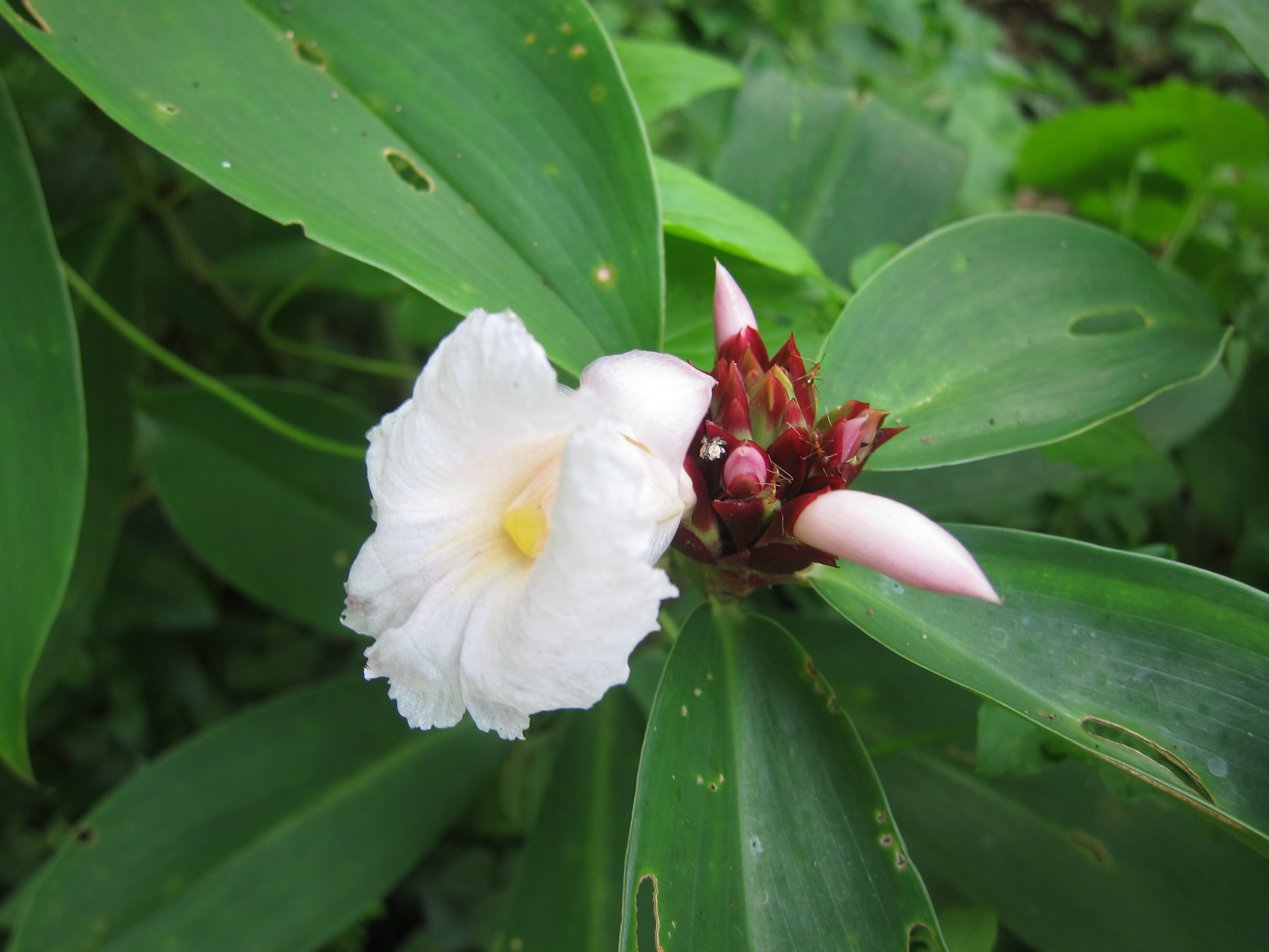 Costus Speciosus - ആനക്കുവ ഔഷധമായും ഉദ്യാനസസ്യമായും ഉപയോഗിക്കുന്ന ഒരു സസ്യമാണ് ആനക്കൂവ. ചണ്ണക്കൂവ, വെൺകൊട്ടം, മലവയമ്പ് എന്നീ പേരുകളിലും ഇത് അറിയപ്പെടുന്നു.